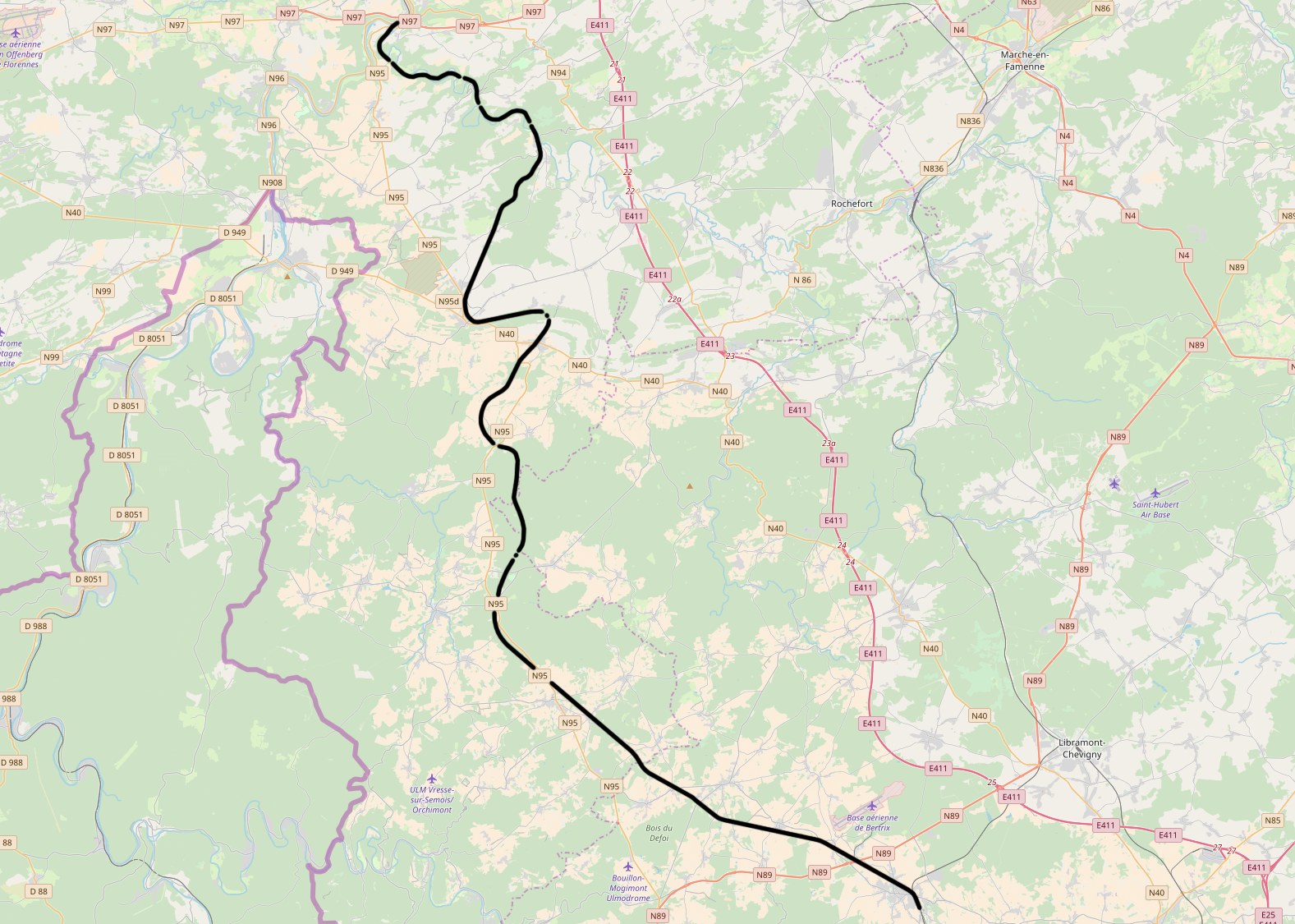 Belgian Railway Line 166, Y Neffe - Bertrix